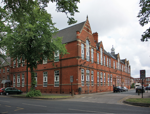 Rosedale Mansions, Hull, East Riding of Yorkshire, England.This building opened in 1895 as the Boulevard Secondary school. Perhaps the most illustrious pupil would be Amy Johnson (Amy Johnson) who was to go on to become the first woman to fly solo from Britain to Australia. The building is now luxury apartments The side street is Malm Street.